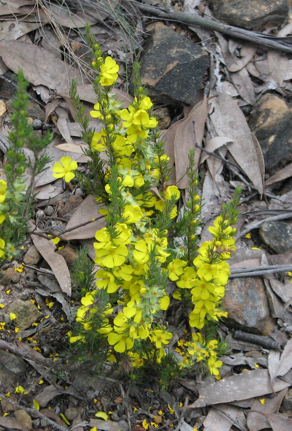 Hibbertia prostrata, Fryers Ranges, Victoria, Australia